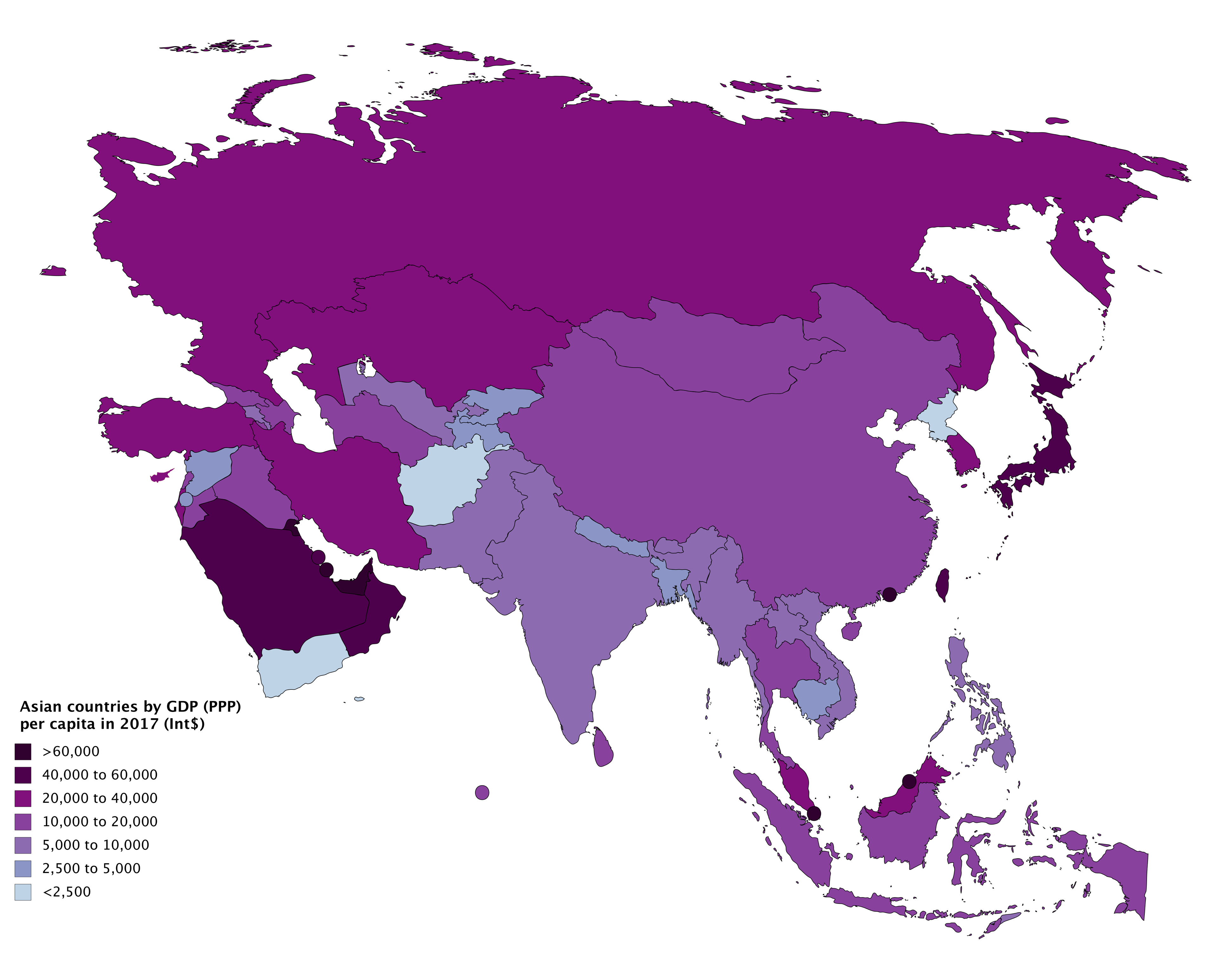 A choropleth map showing countries in Asia by GDP (PPP) per capita in 2017. Hong Kong (but not Macau and Egypt) is included. Based on data from The World Factbook and International Monetary Fund.